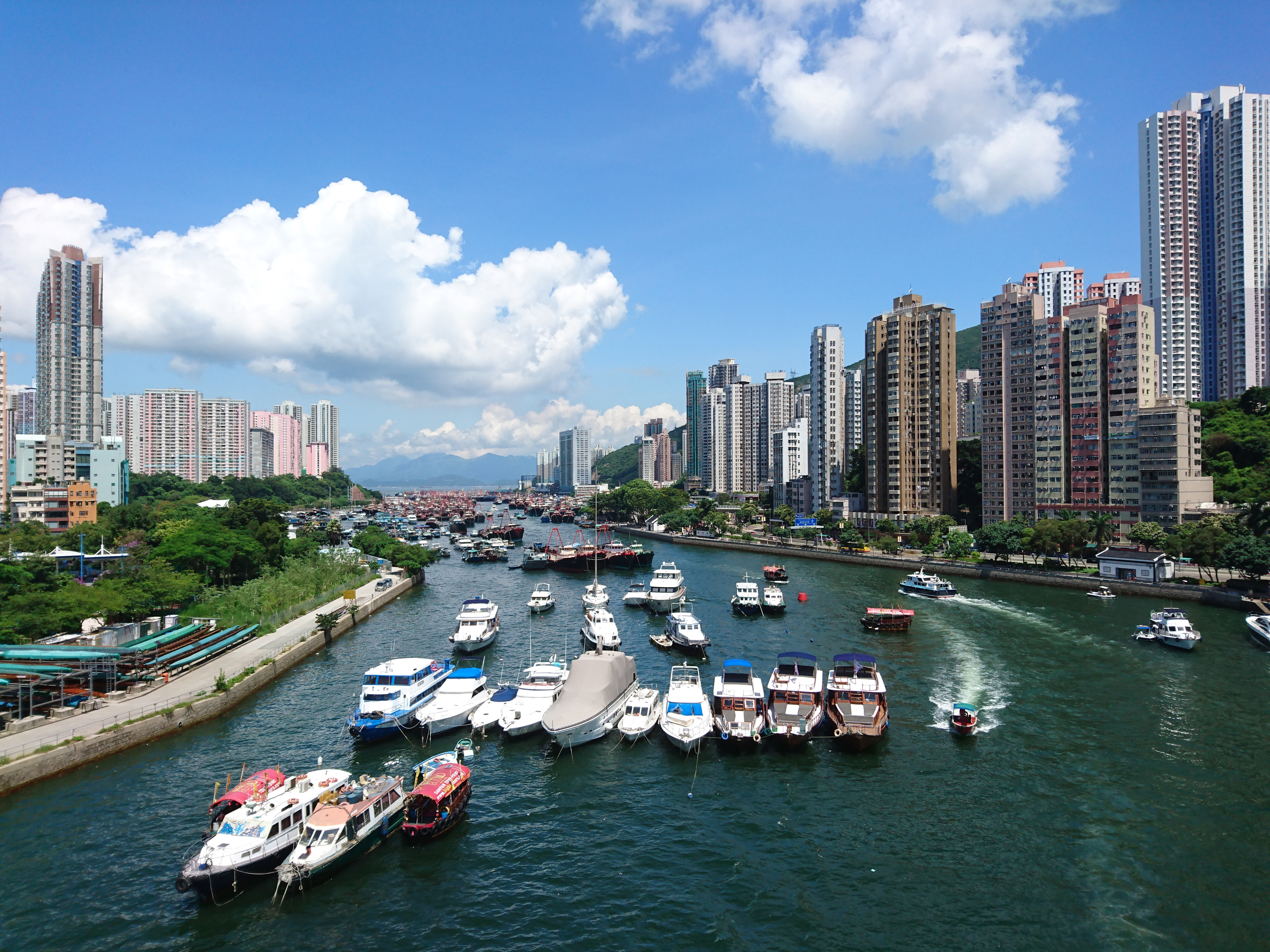 Aberdeen Harbour in 2016